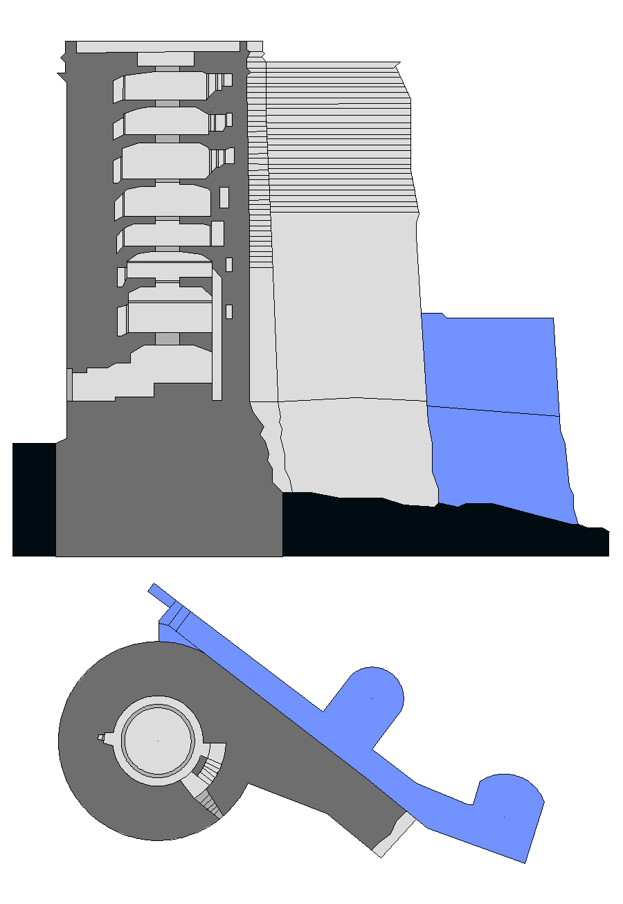 Plan of Maiden Tower / Qız Qalası in Baku. Smaller Wall beneath in Blue. Source: Corvina Kiadó, Ilona Turánsky, Károly Gink: Aserbaidschan - Paläste, Türme, Moscheen. Budapest 1980, deutsch von Tilda und Paul Alpári